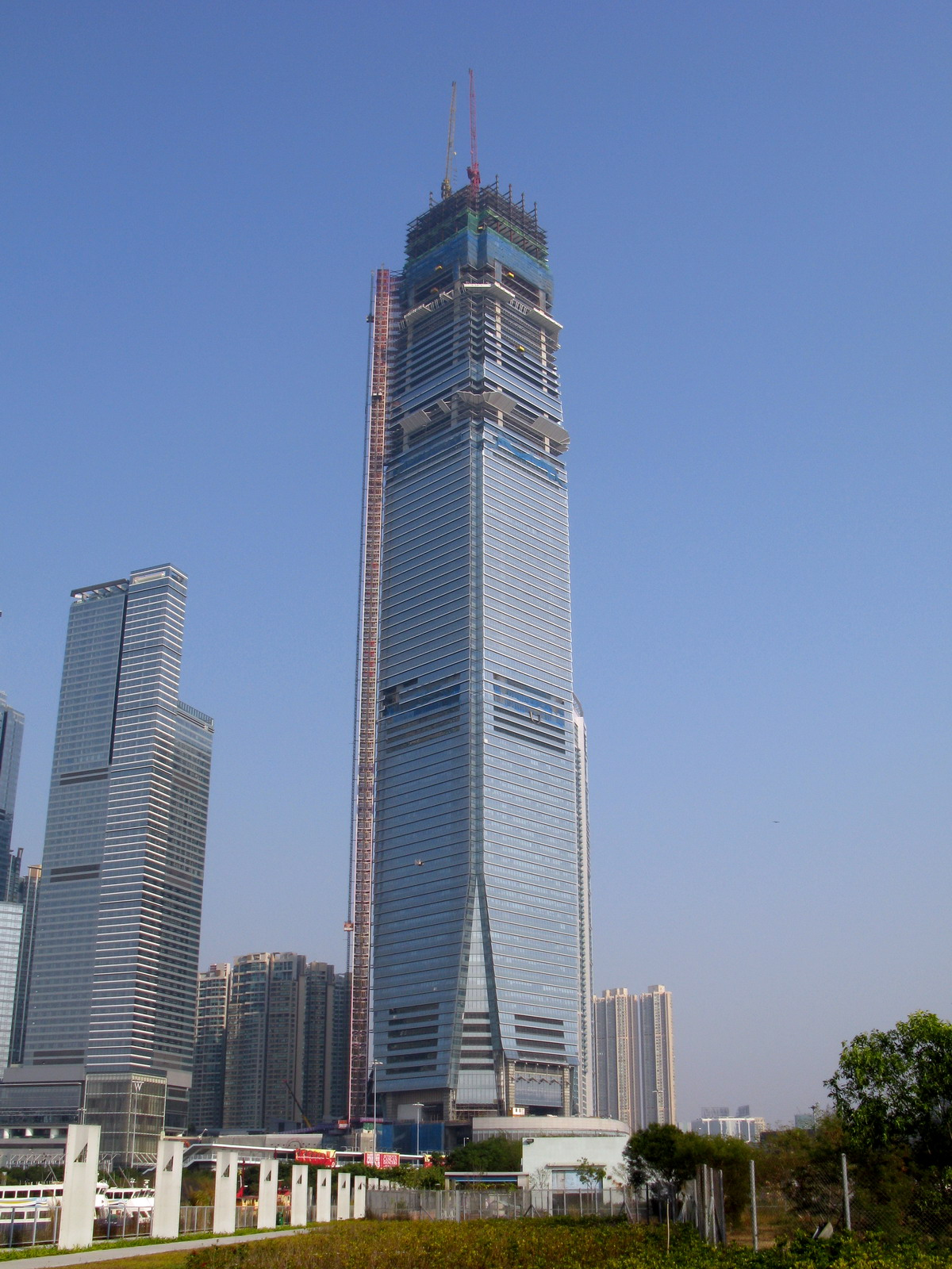 International Commerce Centre during construction (2009/01)